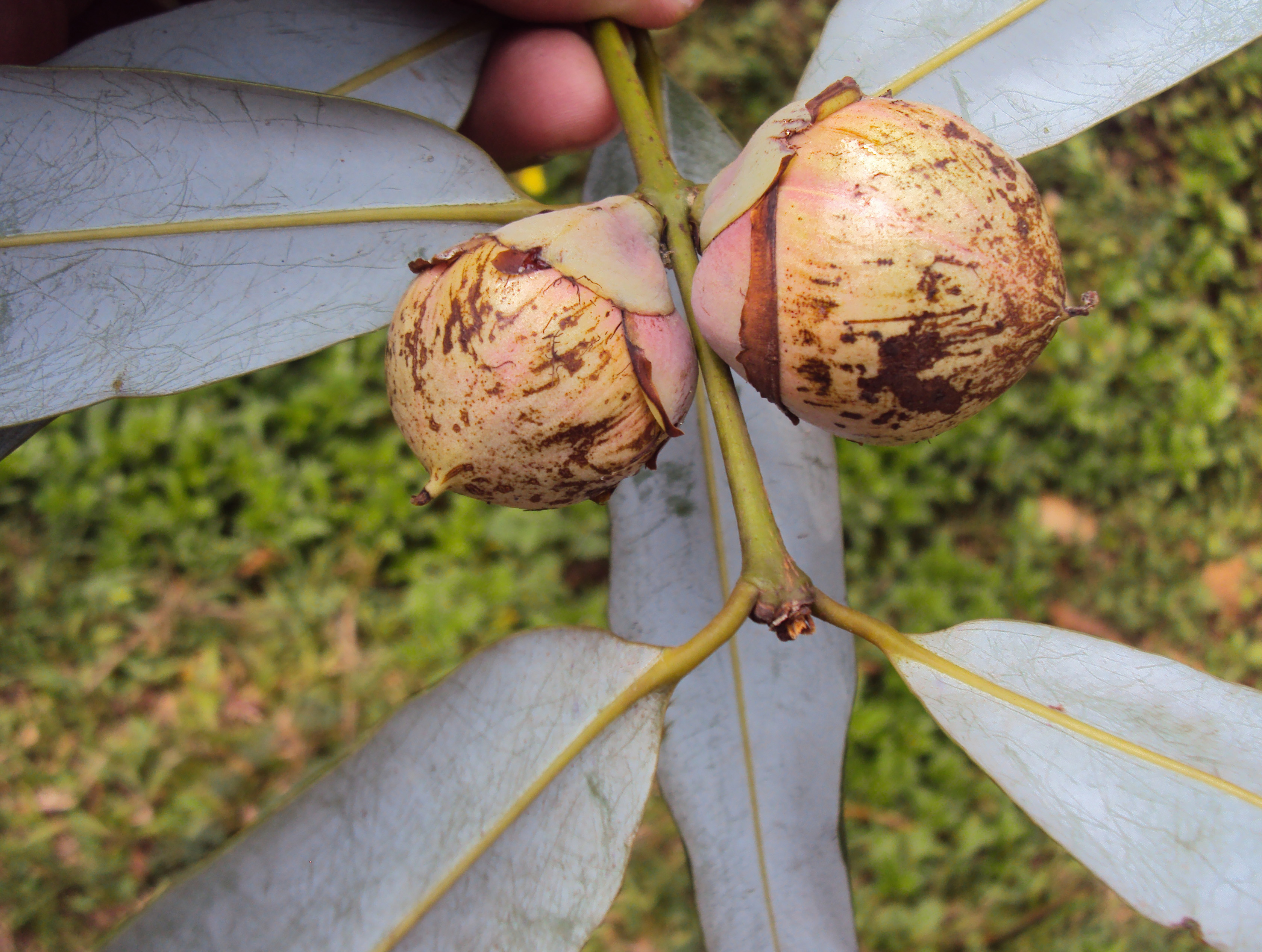 Mesua ferrea